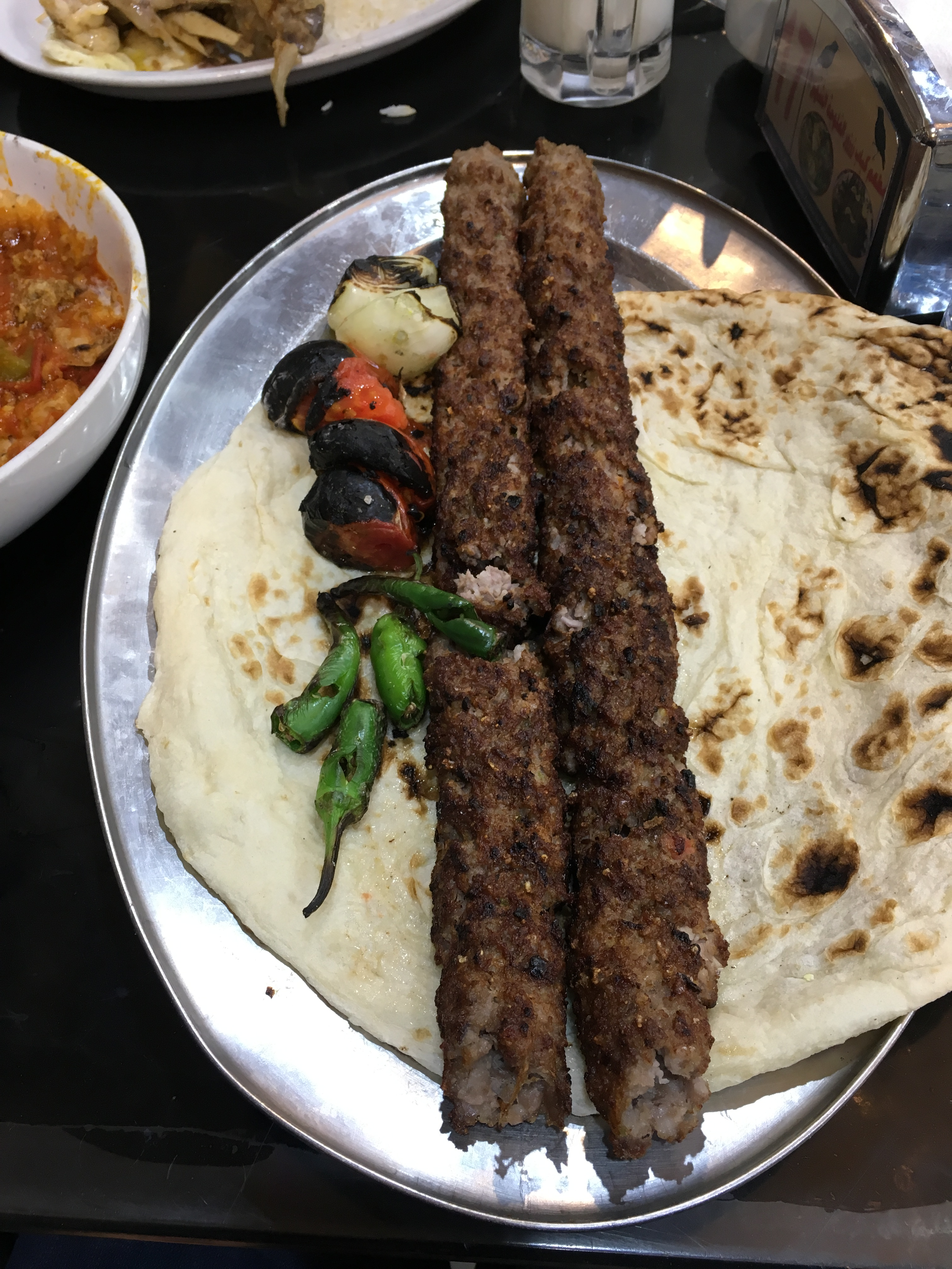 Traditional Iraqi Kebab at a restaurant in Baghdad